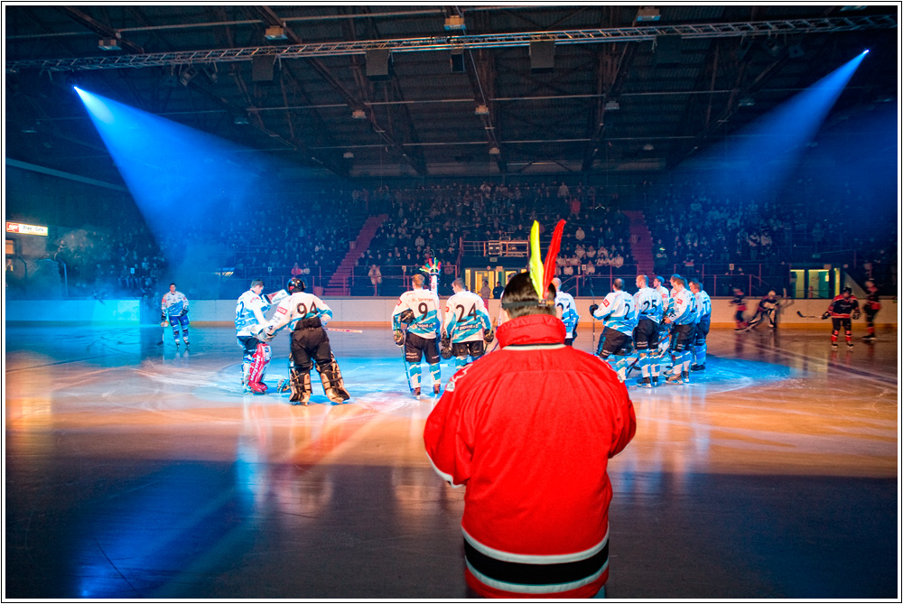 Match at home of the Soester EG